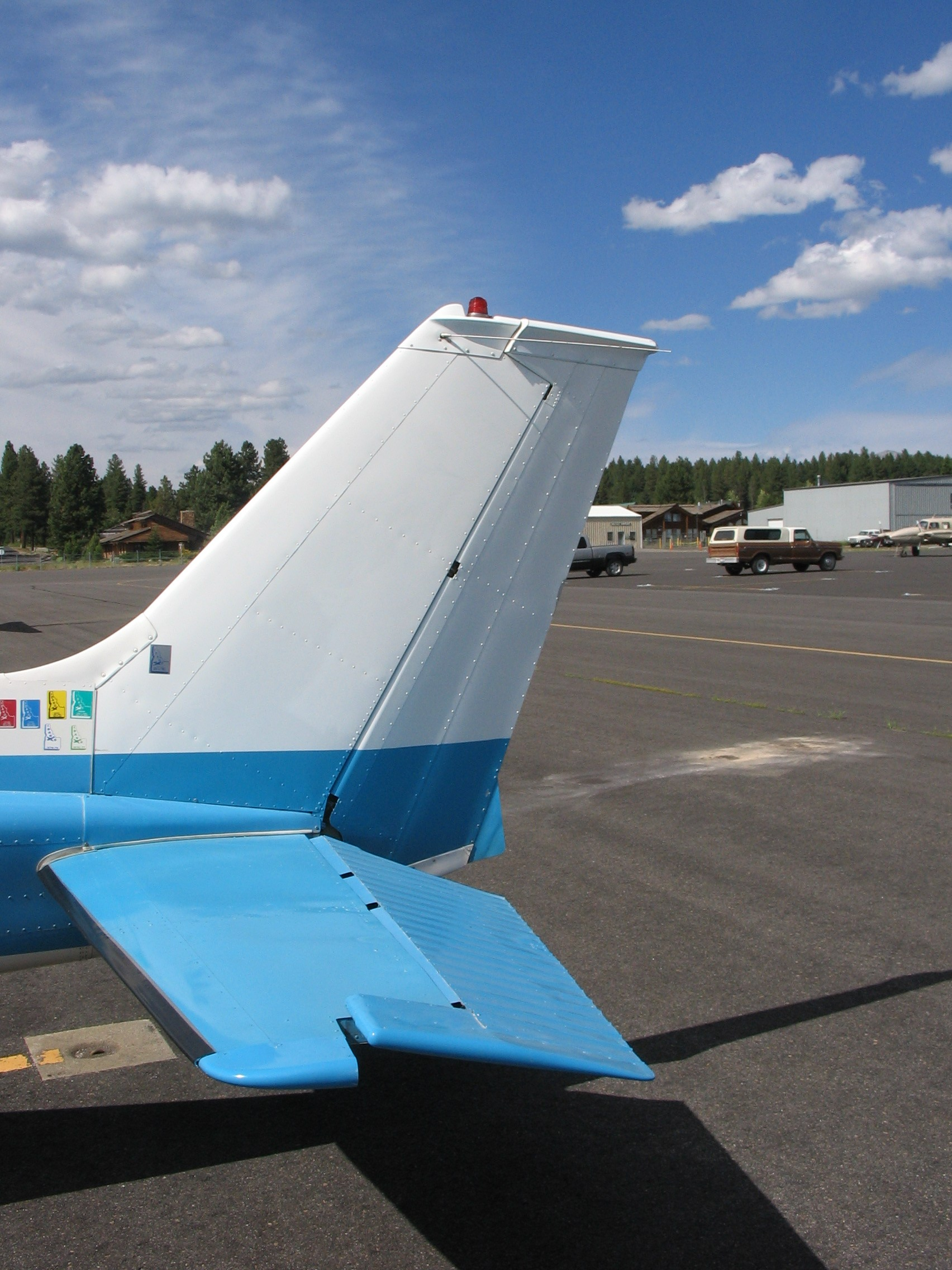 A picture of a Cessna 172 empennage.